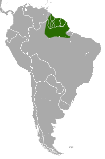 Delicate Slender Mouse Opossum (Marmosops parvidens) range